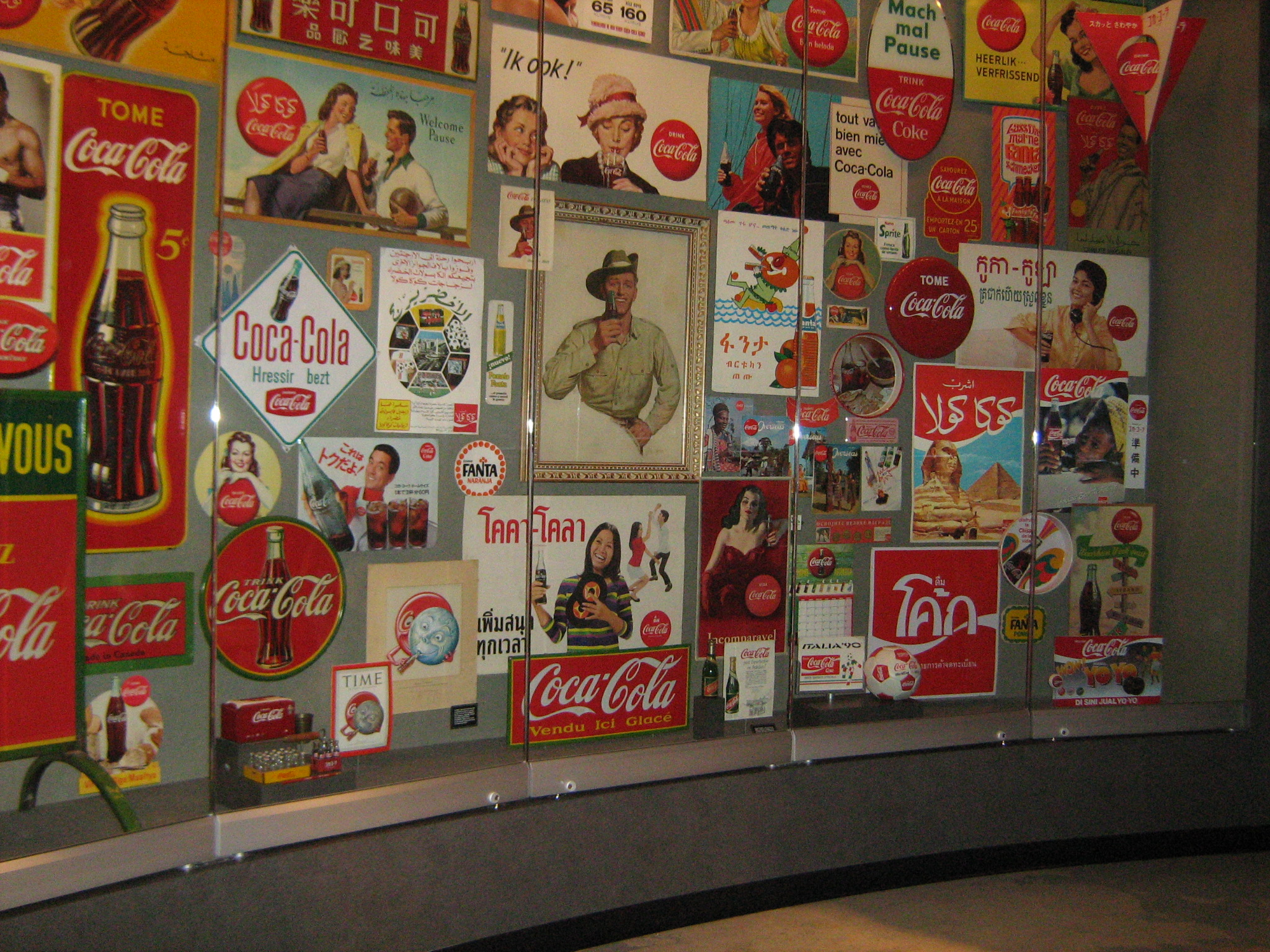 A display of Coca-Cola memorabilia at the World of Coca-Cola in Atlanta, Georgia